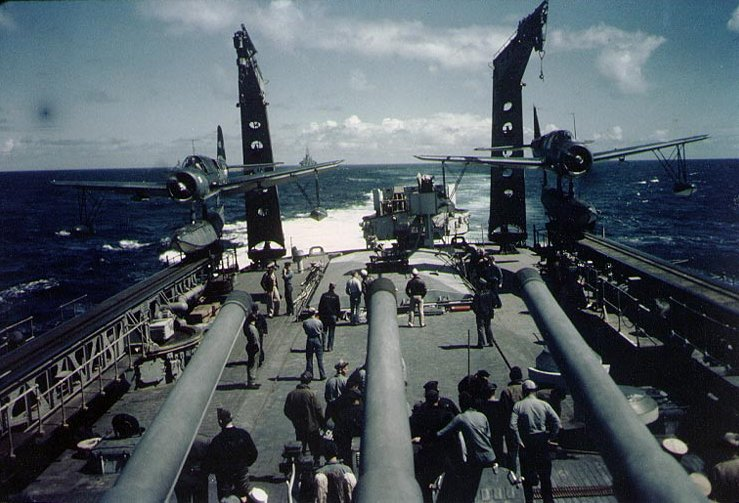 Two Vought OS2U "Kingfisher" floatplanes warming up on the fantail of the U.S. Navy heavy cruiser USS Quincy (CA-71) prior to catapult launching, probably at the time of the Invasion of Southern France, August 1944. Note barrels of Quincy´s after eight-inch guns in the foreground, hangar hatch cover and twin aircraft cranes at the ship's stern.